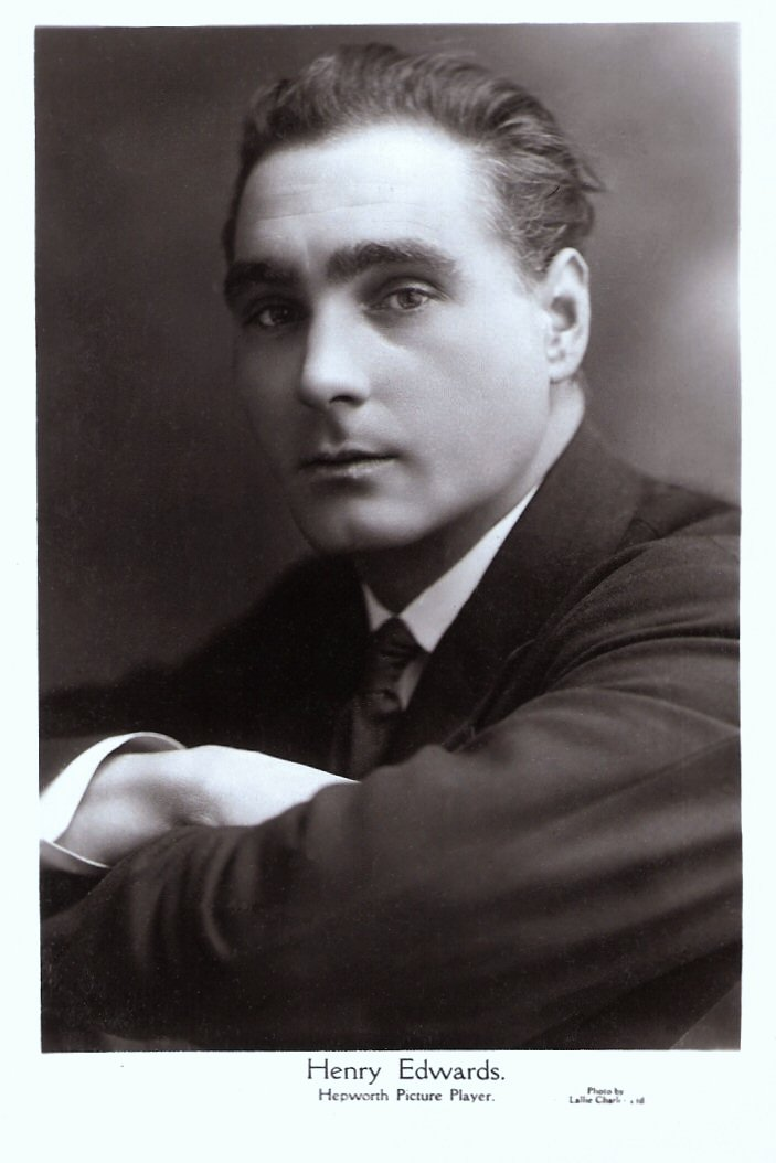 Hepworth Picture Player postcard featuring a photograph of actor Henry Edwards.